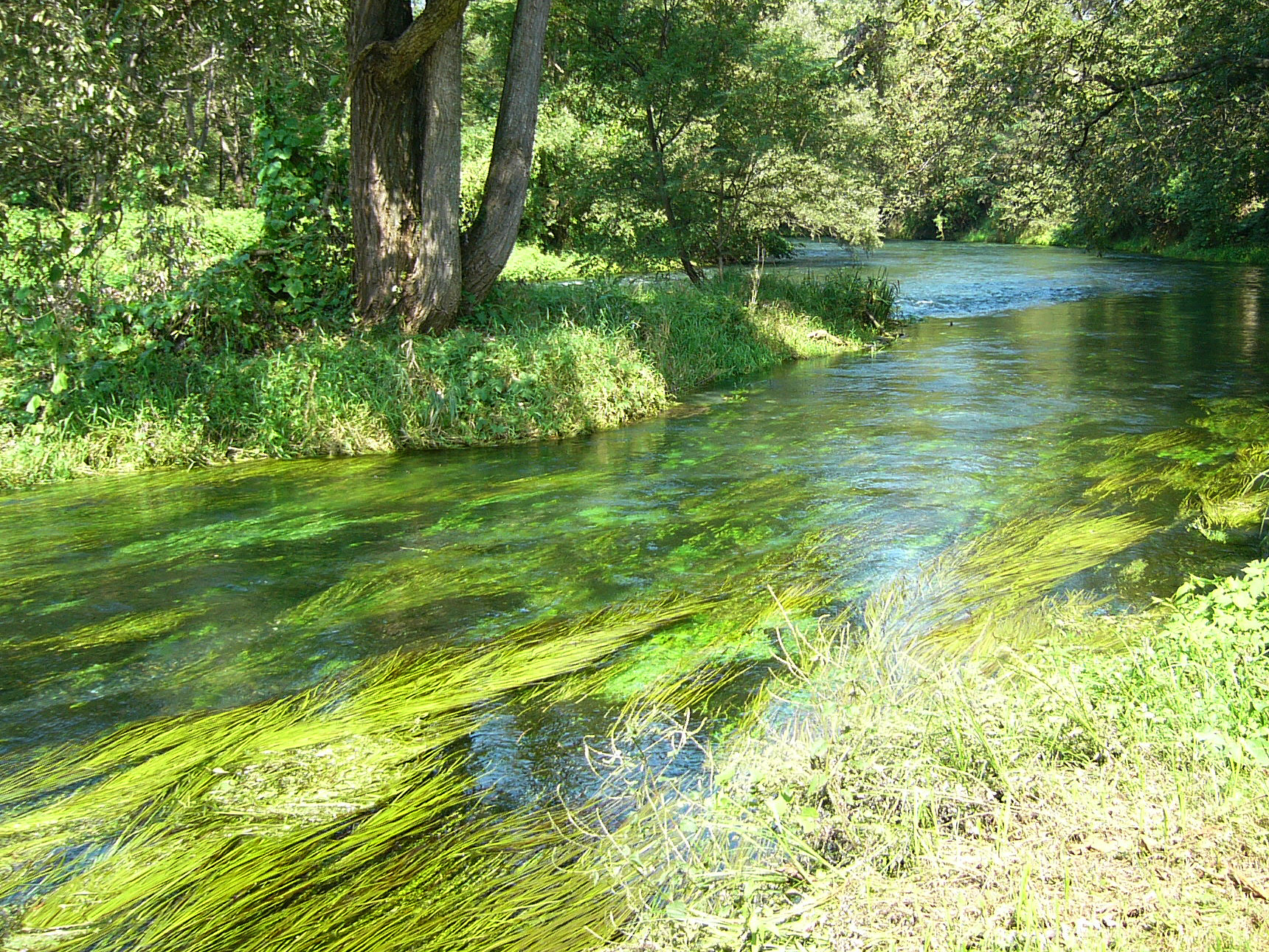 Daio Wasabi Farm in Azumino, Nagano prefecture, Japan